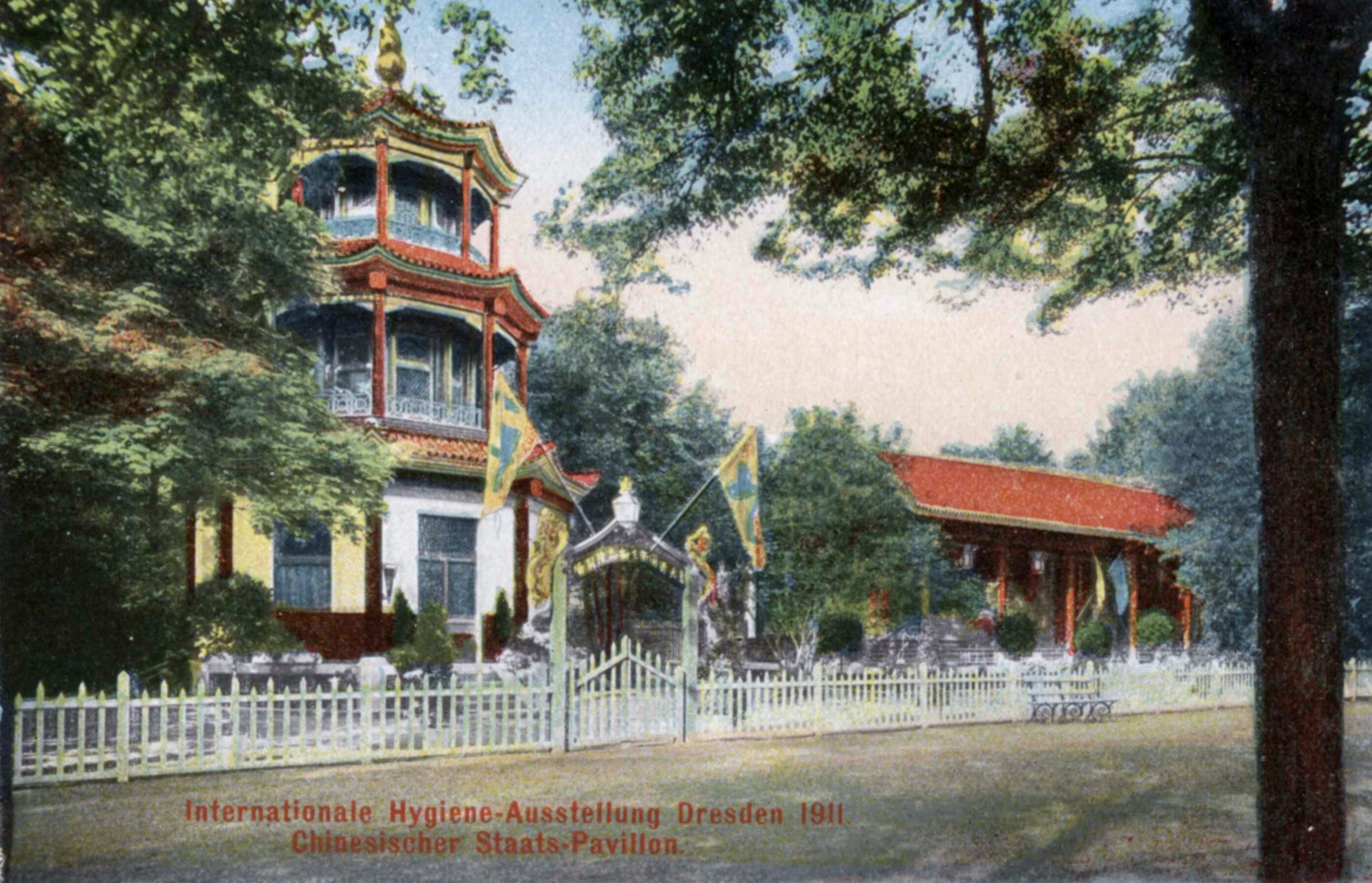 International Hygiene Exhibition Dresden 1911 (Chinese state pavilion)